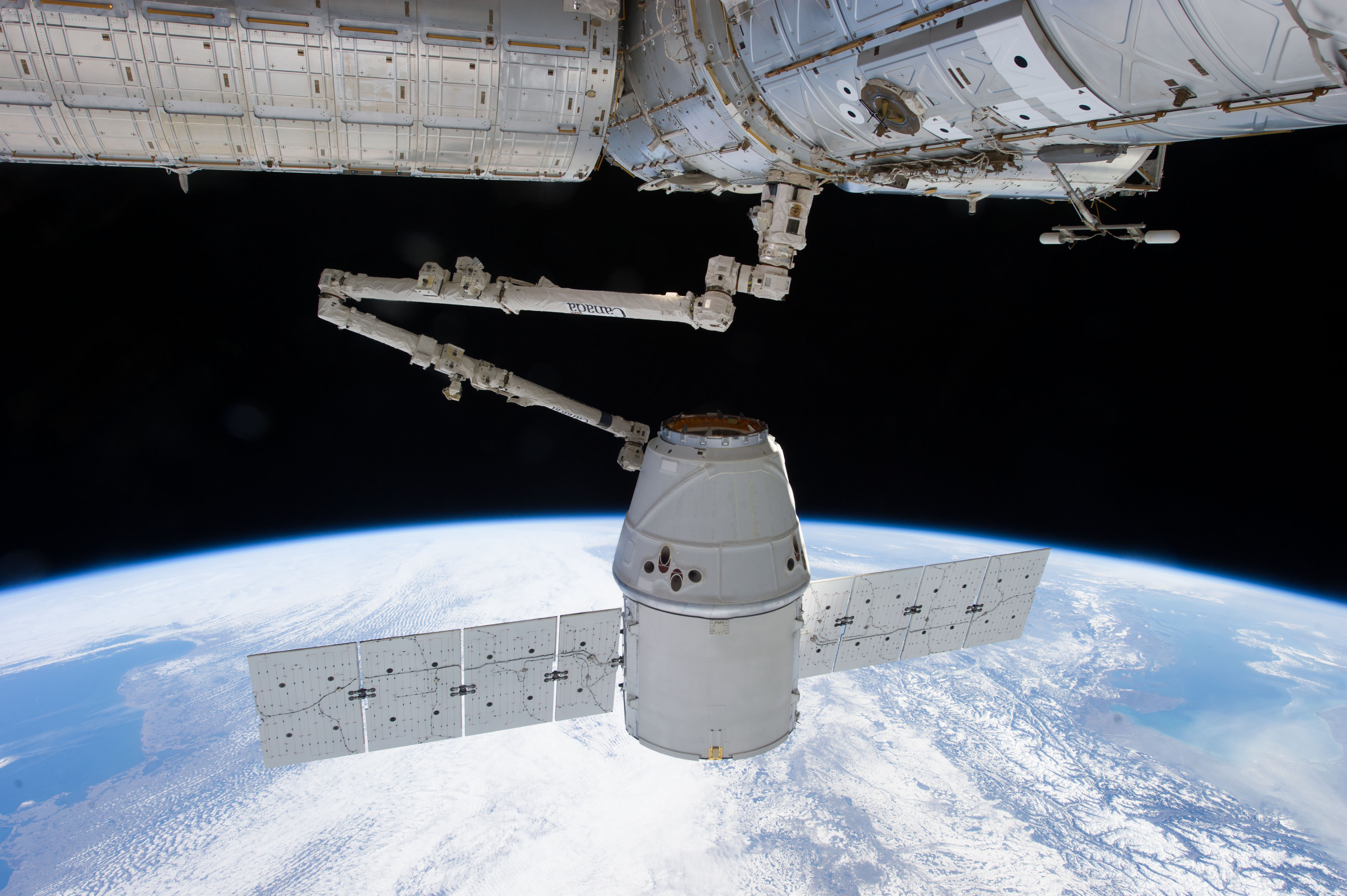 ISS034-E-060060 (3 March 2013) --- This is one of a series of photos taken by the Expedition 34 crew members aboard the International Space Station during the March 3 approach, capture and docking of the SpaceX Dragon. Thus the capsule begins its scheduled three-week-long stay at the orbiting space station.